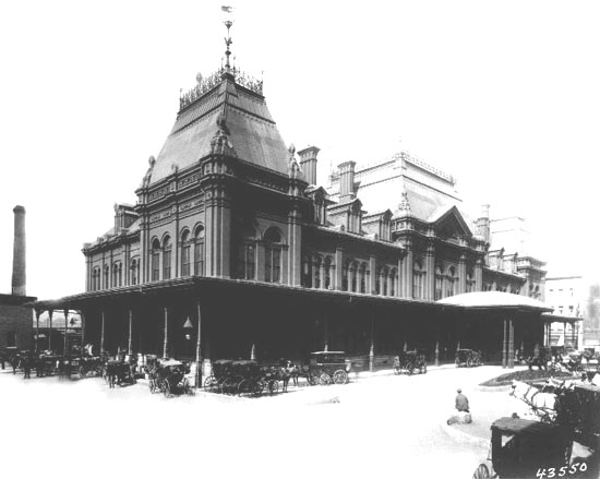 The Grand Trunk Railway's Bonaventure Station in 1871.